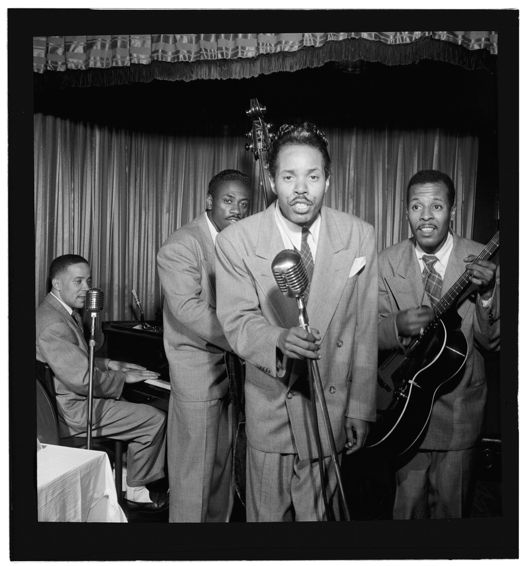 Babs Gonzales, New York, between 1938 and 1948